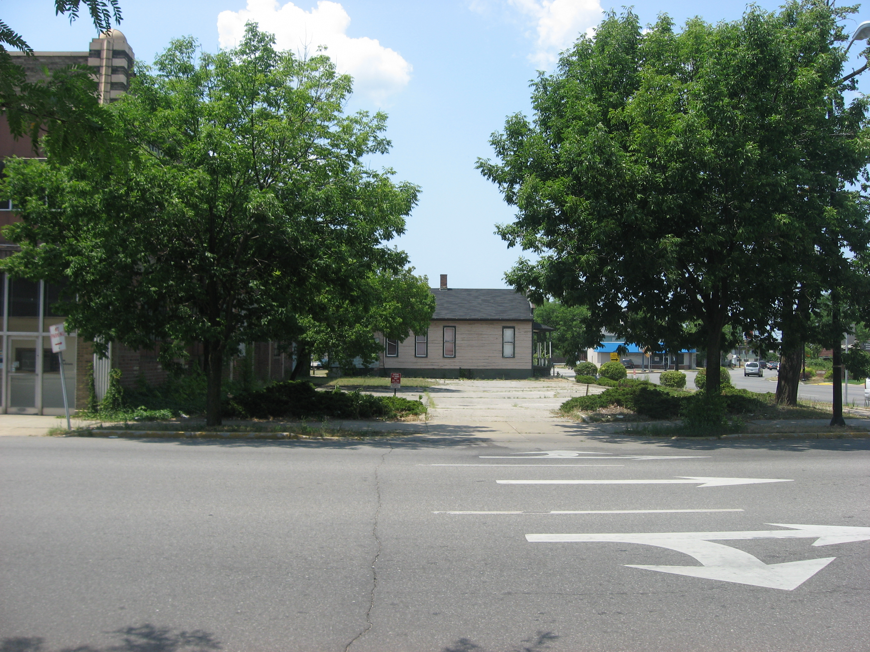 A parking lot on the southwestern corner of the junction of LaSalle Avenue and Lafayette Boulevard in South Bend, Indiana, United States. The parking lot was formerly the location of the Kelley-Fredrickson Office Building; along with the still-standing Kelley-Fredrickson House that appears in the background, the office building was listed on the National Register of Historic Places in 1984 and has not yet been removed.